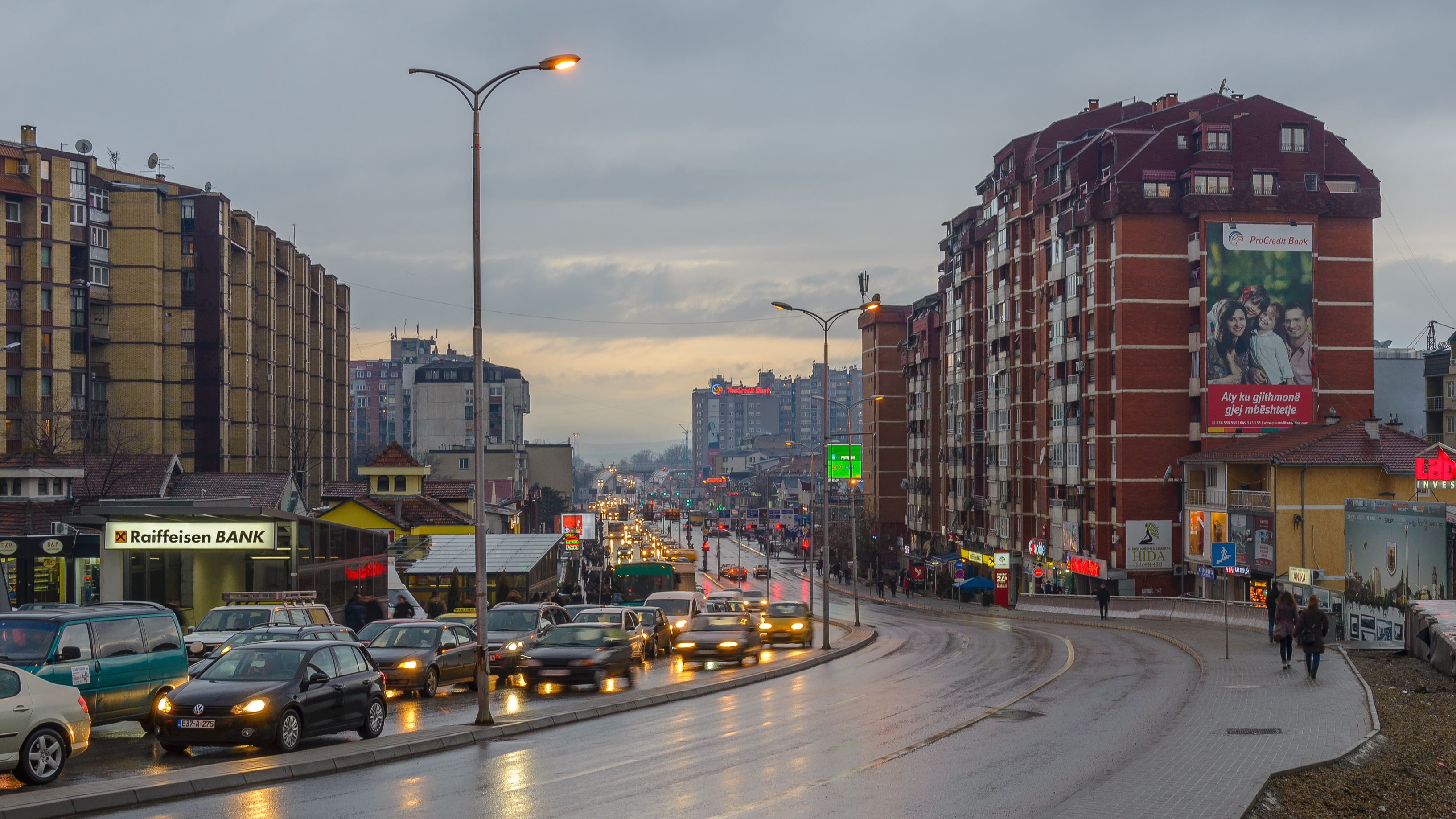 Bill Clinton Boulevard, Pristina, Kosovo.